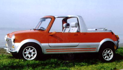 Domino Premier